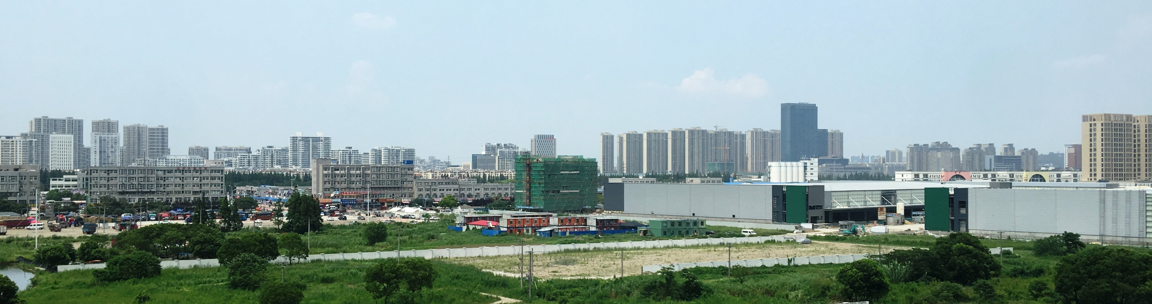 Image from the Central, business part of Kunshan District town, a part of Suzhou city, in Jiangsu province, China